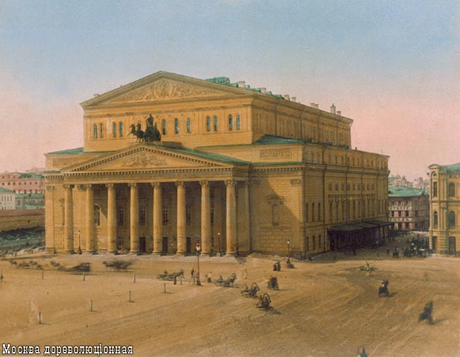 pre-revolutionaty russian postcard of Bolshoi Theatre